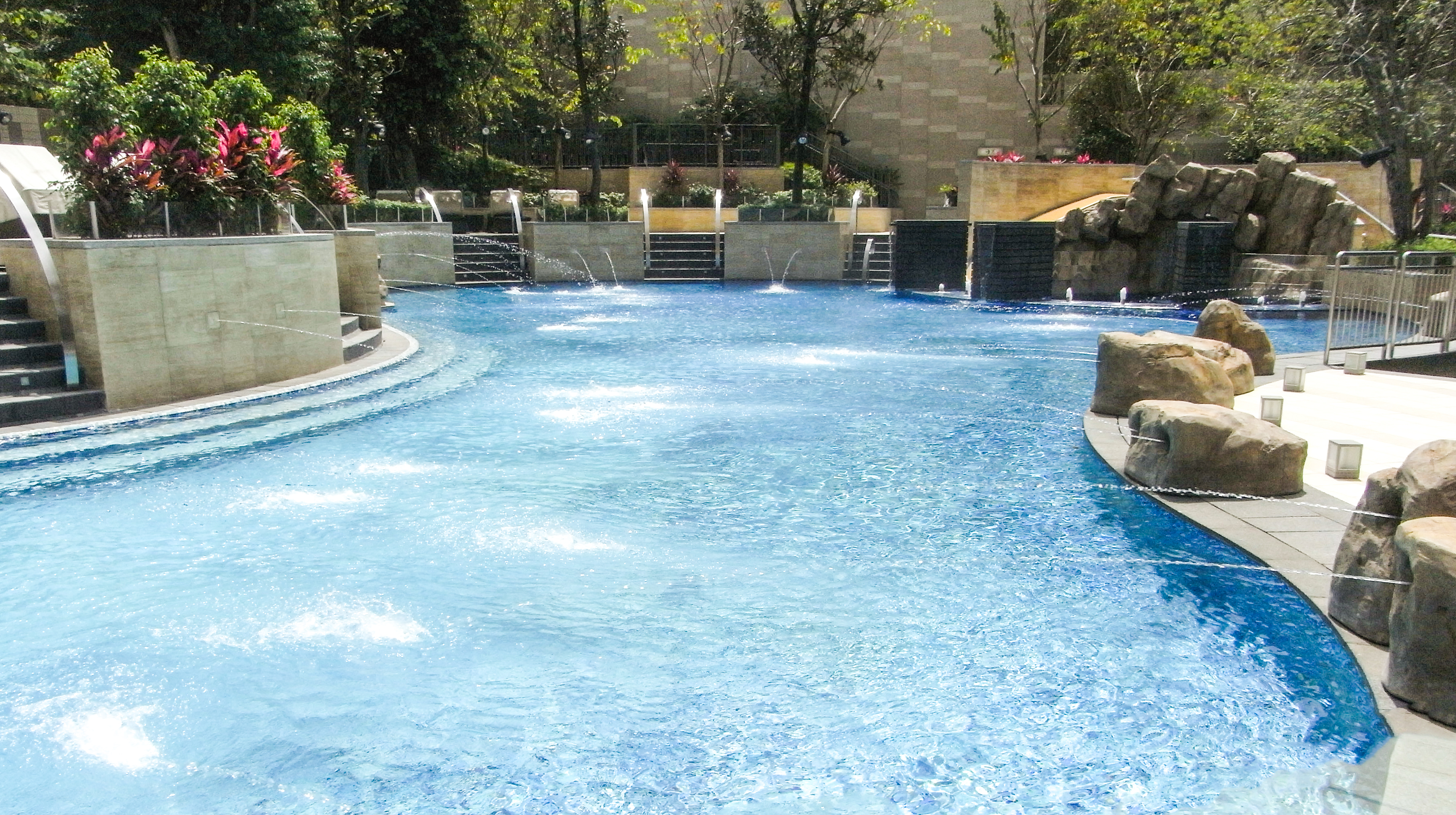 香港新界沙田大圍顯泰街18號名家匯